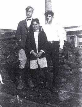 Norwegian Anders Lange in Argentina, late 1920s.